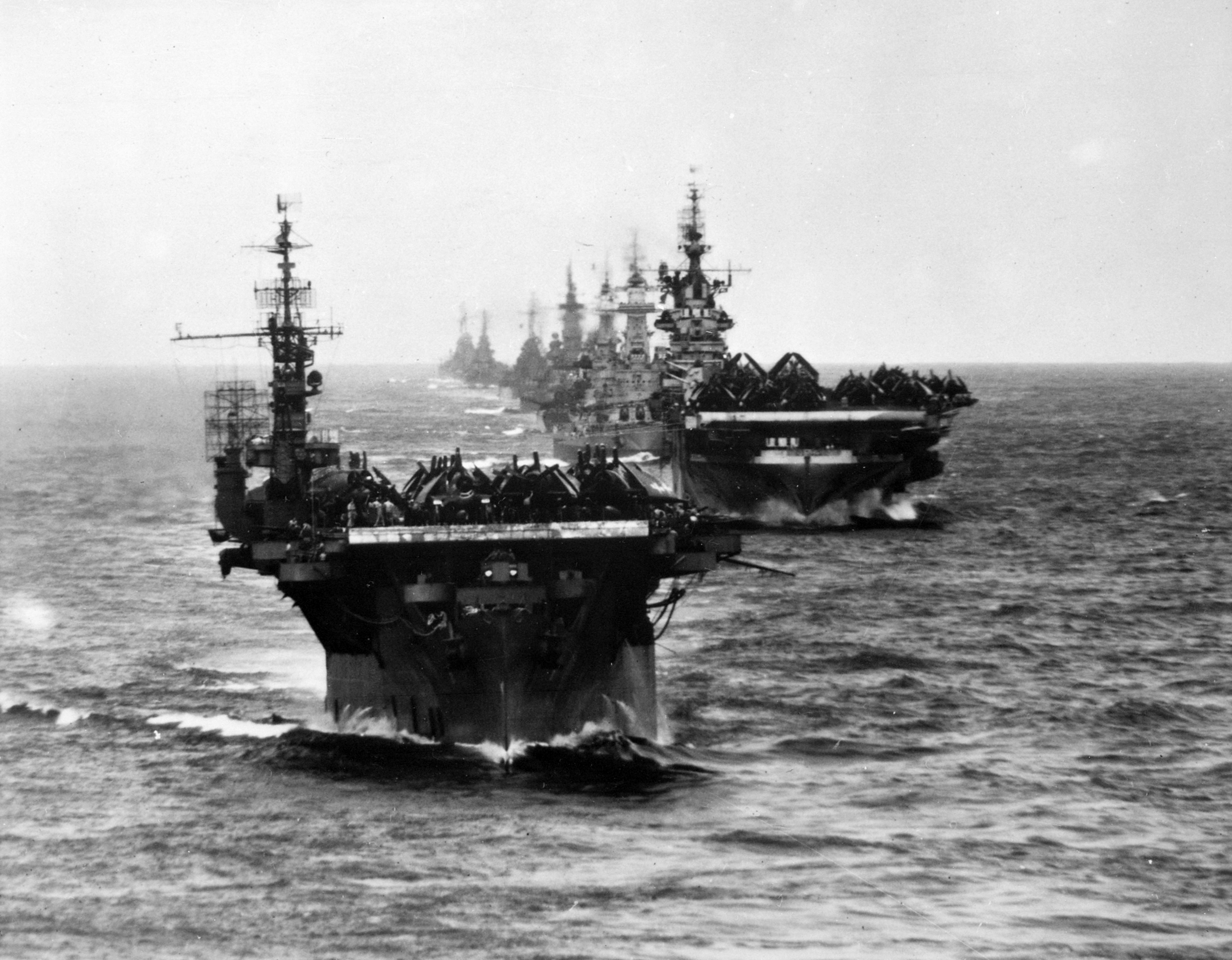 The U.S. Navy Task Group 38.3 enters Ulithi anchorage in column, 2 December 1944, while returning from strikes on targets in the Philippines. Ships are (from front): USS Langley (CVL-27), USS Ticonderoga (CV-14), USS Washington (BB-56), USS North Carolina (BB-55), USS South Dakota (BB-57), USS Santa Fe (CL-60), USS Biloxi (CL-80), USS Mobile (CL-63), and USS Oakland (CL-95).